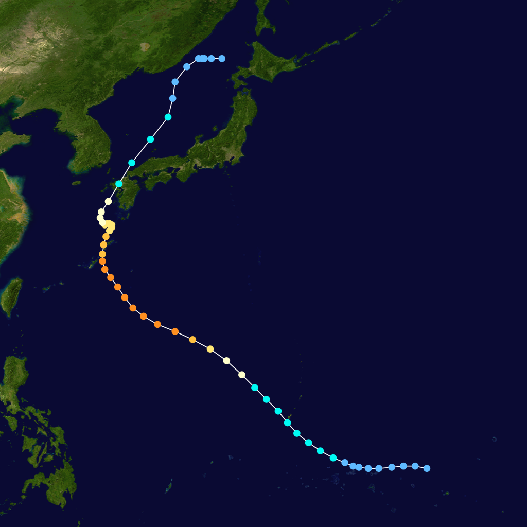 Typhoon Fran 1976 track. Uses the color scheme from the Saffir-Simpson Hurricane Scale.